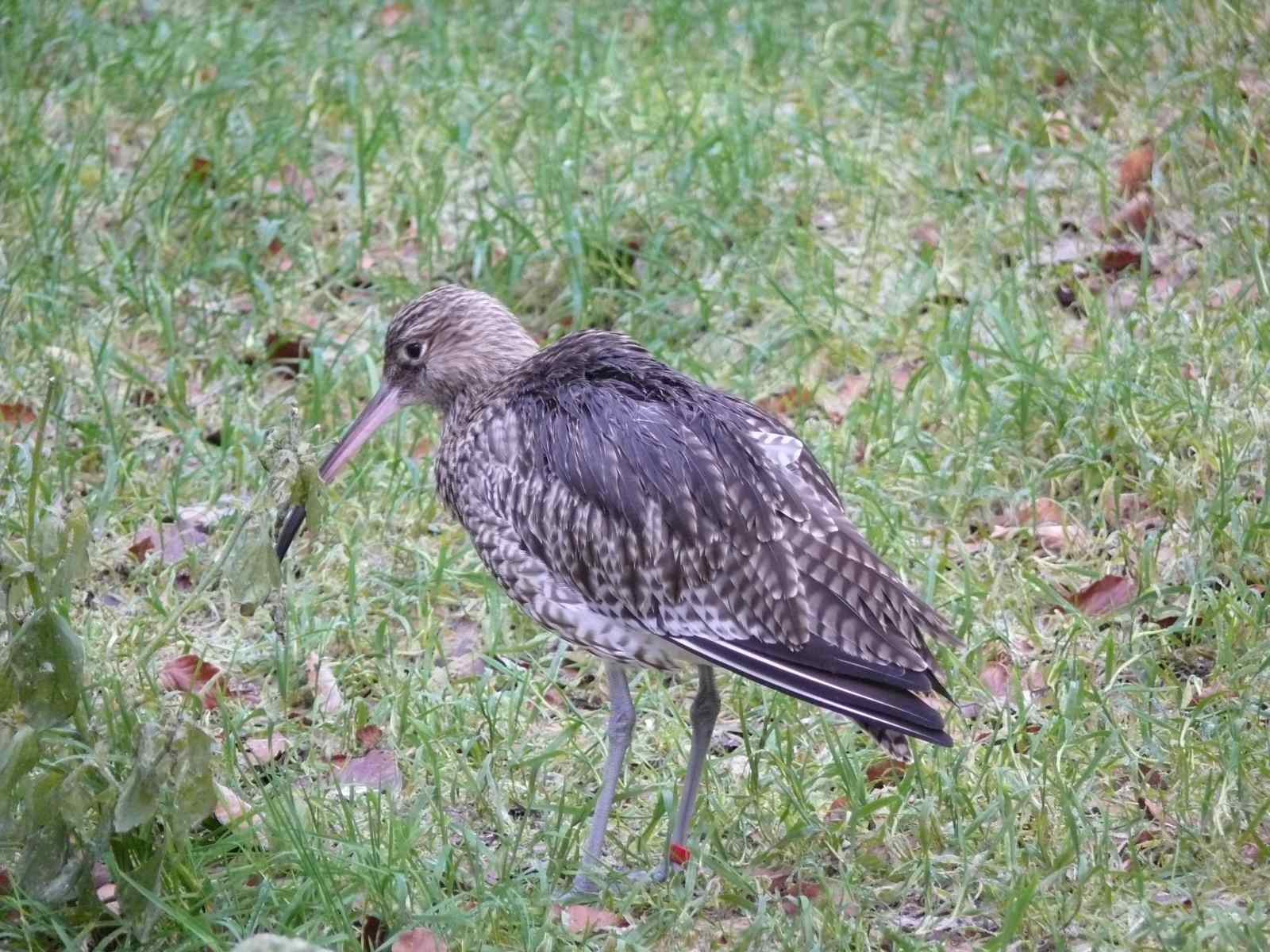 Eurasian Curlew, Numenius arquata